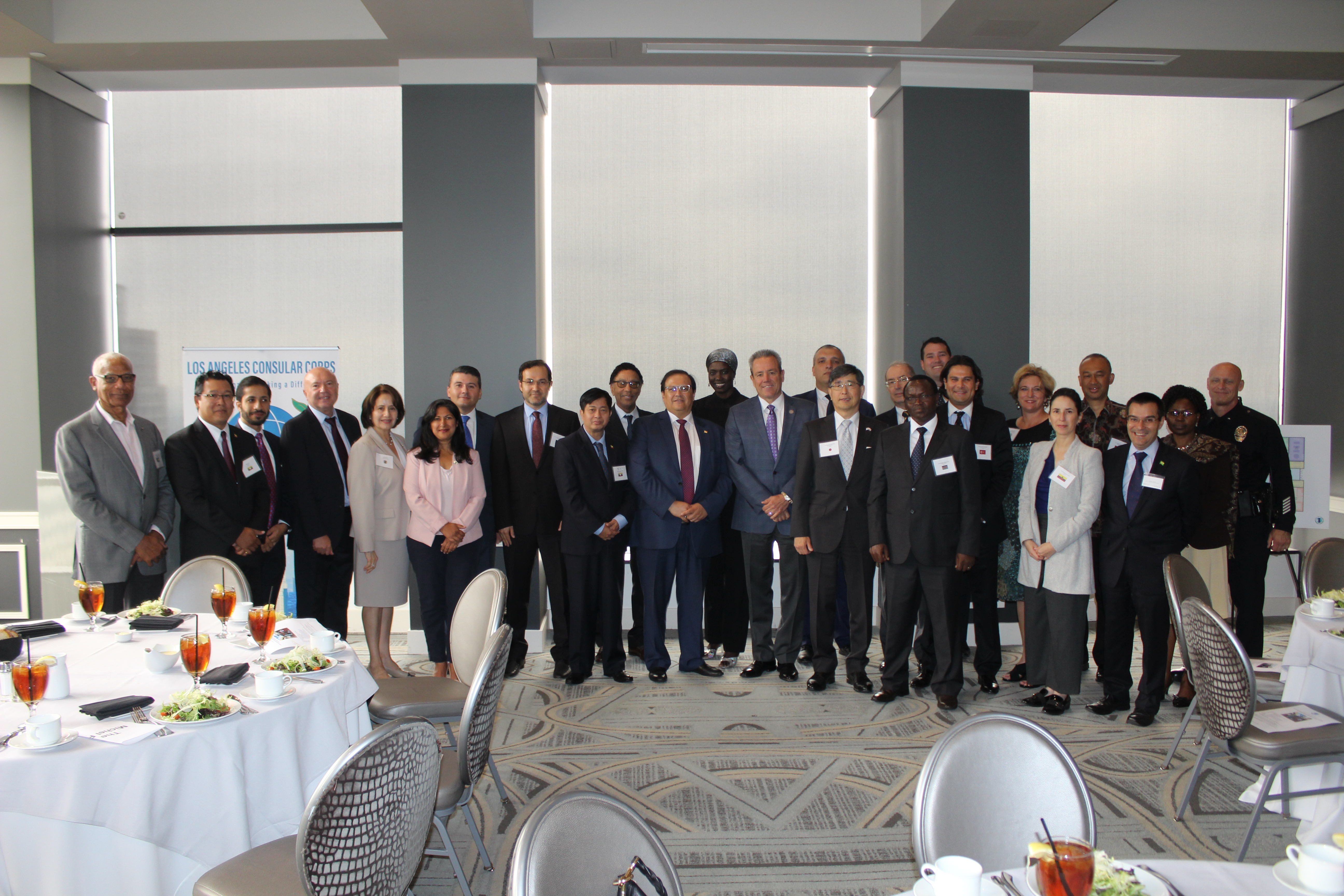 LACC Consuls with LAPD Chief Michel Moore in 2019